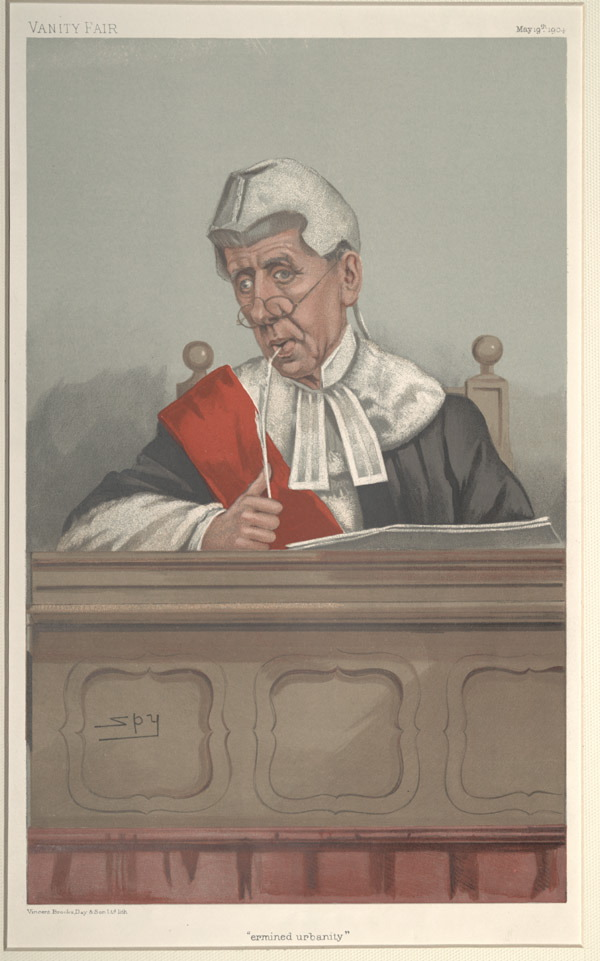 Judges No.62: Caricature of The Hon Sir Arthur Richard Jelf KC (1837-1917). [1]. Caption reads: "Ermined urbanity"